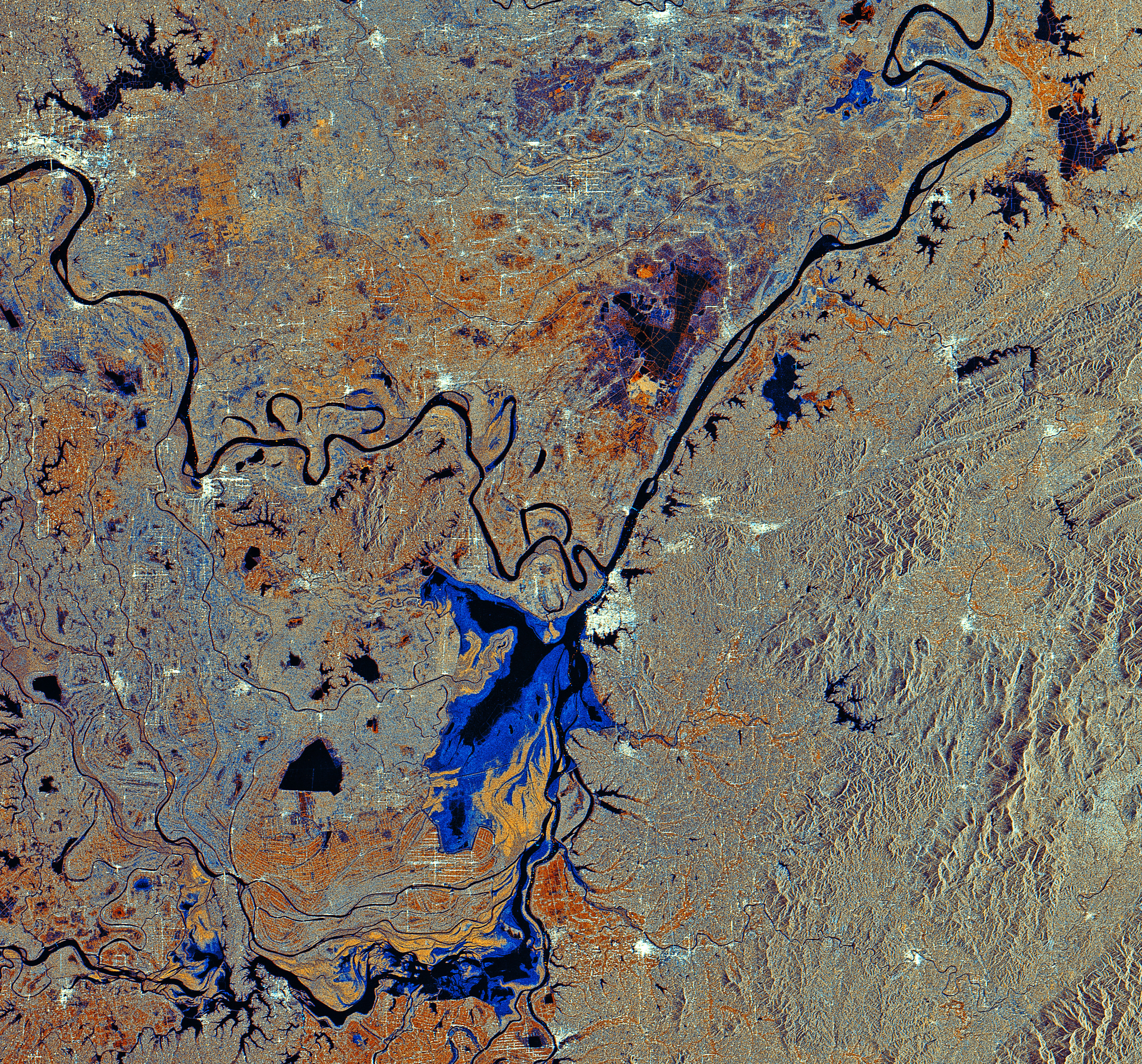 This Envisat radar image features the Dongting Lake and the Yangtze River in south-central China. Dongting Lake (bottom centre) is China’s second largest freshwater body. The lake is fed from the north by the Yangtze (seen snaking across the top of the image) and from the south by the Zi (visible), Xiang, Yuan and Li rivers. This image was created by combining three Envisat Advanced Synthetic Aperture Radar (ASAR) acquisitions taken over the same area, with colours representing changes that occurred in the surface between acquisitions. The various colours of blue show the variations in the lake’s total area. This ASAR image includes data acquired on 22 December 2002, 19 June 2005 and 19 April 2009.